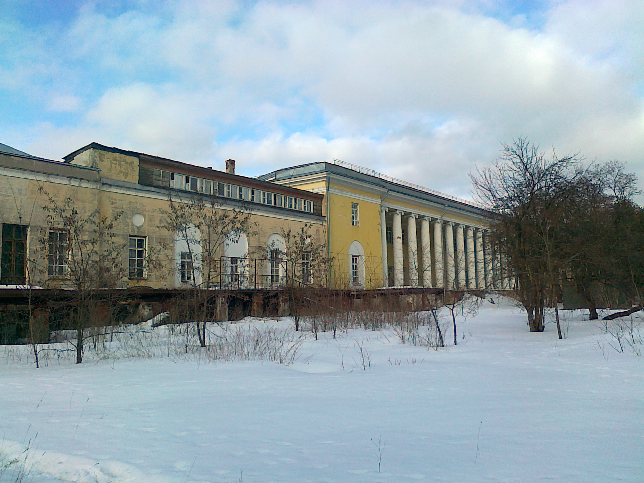 Усадьба Горенки в 2012 году